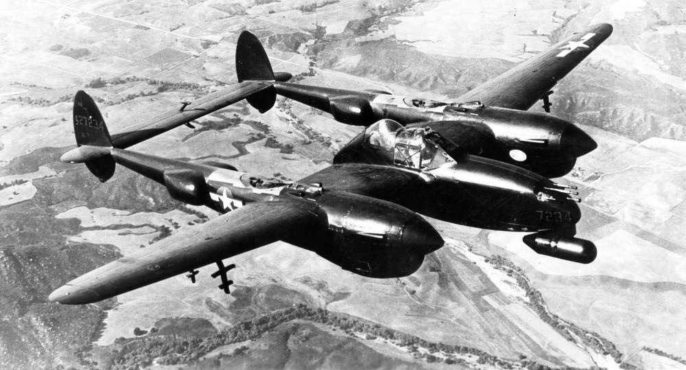 Description: No. 5211. Lockheed 422 P-38M Night Lightning (44-27234 c/n 422-8238) Note also credited to "Lockheed" and not the USAAF in Lockheed Aircraft since 1913.